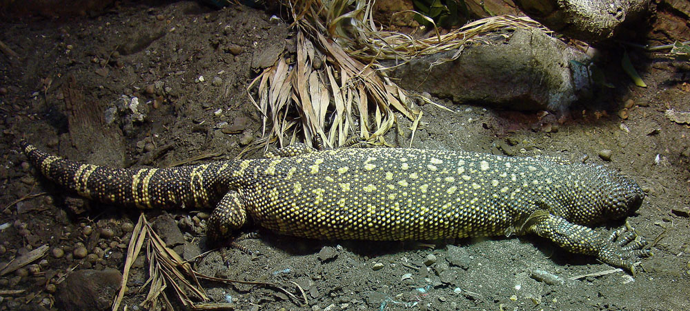 The venomous Beaded Lizard is known as Largato Enchaquirado in its native southern Mexico, but is here at the London Zoo. In context at